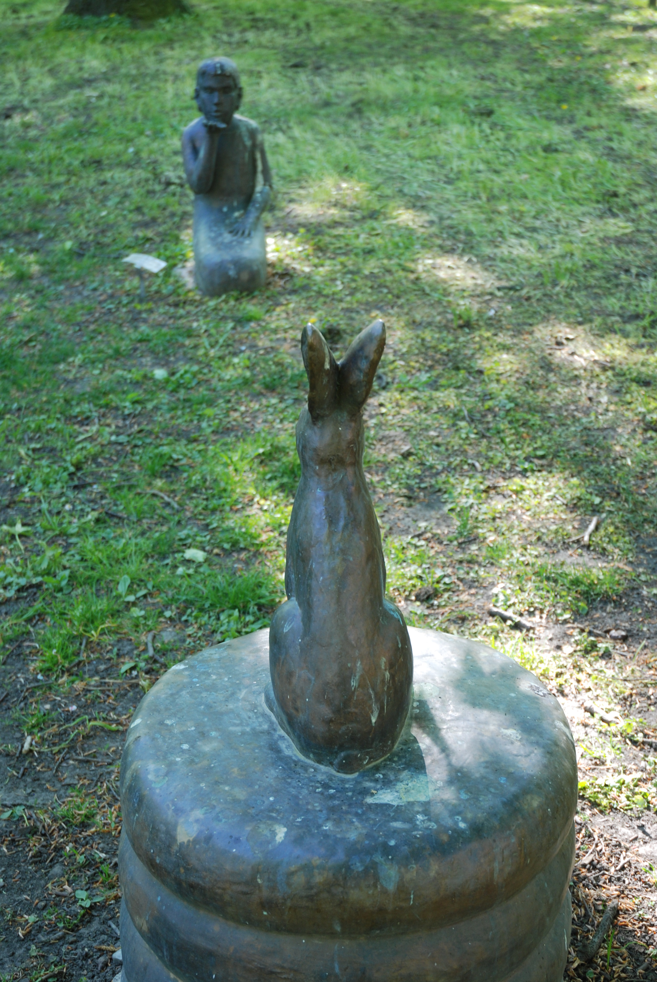 Bianca Maria Barmen´s Kommer ihåg att jag såg dig, 2007, Sculpture Park of Skissernas Museum in Lund, Sweden